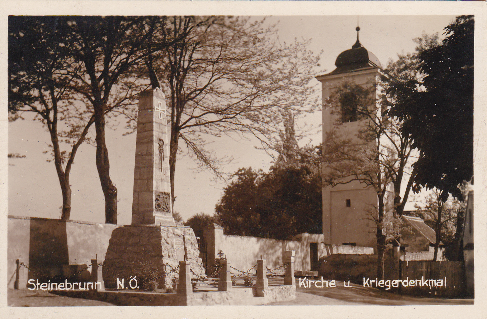 Belltower of Steinebrunn, Lower Austria, Scan of a historic fotograf from late 1920ies